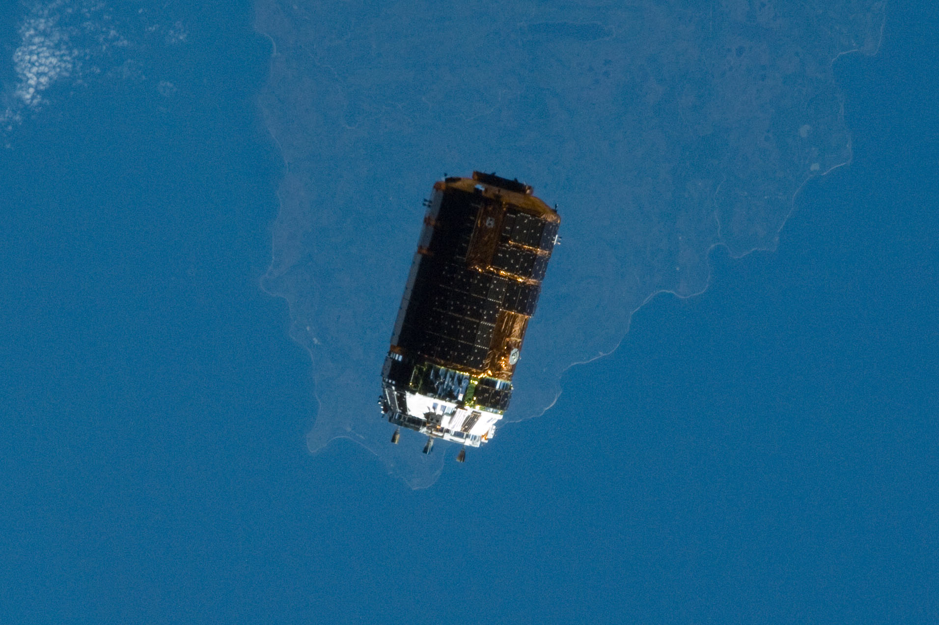 The unpiloted Japan Aerospace Exploration Agency (JAXA) H-II Transfer Vehicle (HTV-3) approaches the International Space Station. The Japan Aerospace Exploration Agency launched HTV-3 aboard an H-IIB launch vehicle from the Tanegashima Space Center in southern Japan at 10:06 p.m. EDT July 20 (11:06 a.m. July 21, Japan time). The HTV is bringing 7,000 pounds of cargo including food and clothing for the crew members, an aquatic habitat experiment, a remote-controlled Earth-observation camera for environmental studies, a catalytic reactor for the station's water regeneration system and a Japanese cooling water recirculation pump. The vehicle will remain at the space station until Sept. 6 when, like its predecessors, it will be detached from the Harmony node by Canadarm2 and released for a fiery re-entry over the Pacific Ocean.